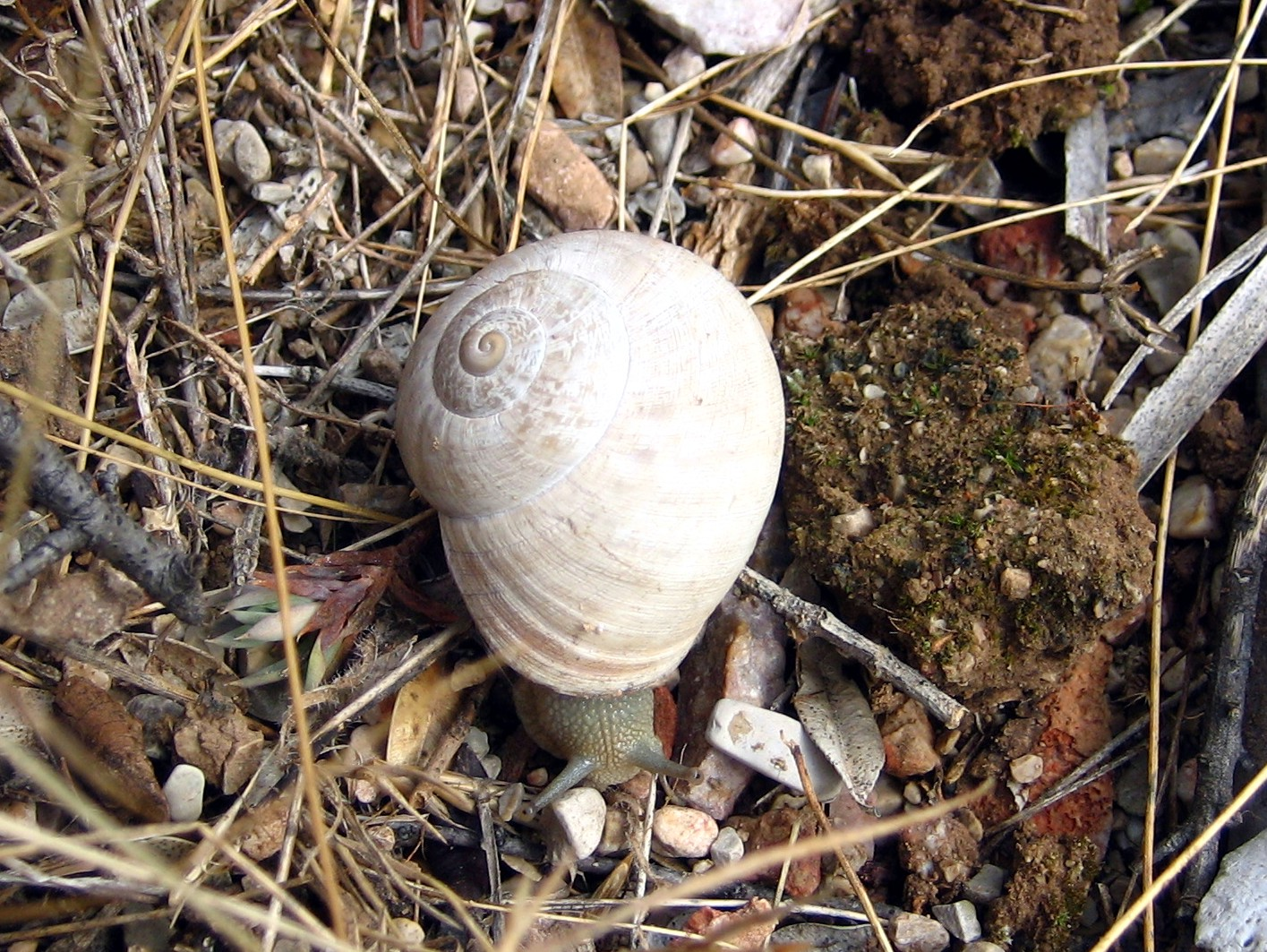 Iberus gualtieranus alonensis, Alfara de Carles (near Tortosa), Tarragona, Spain